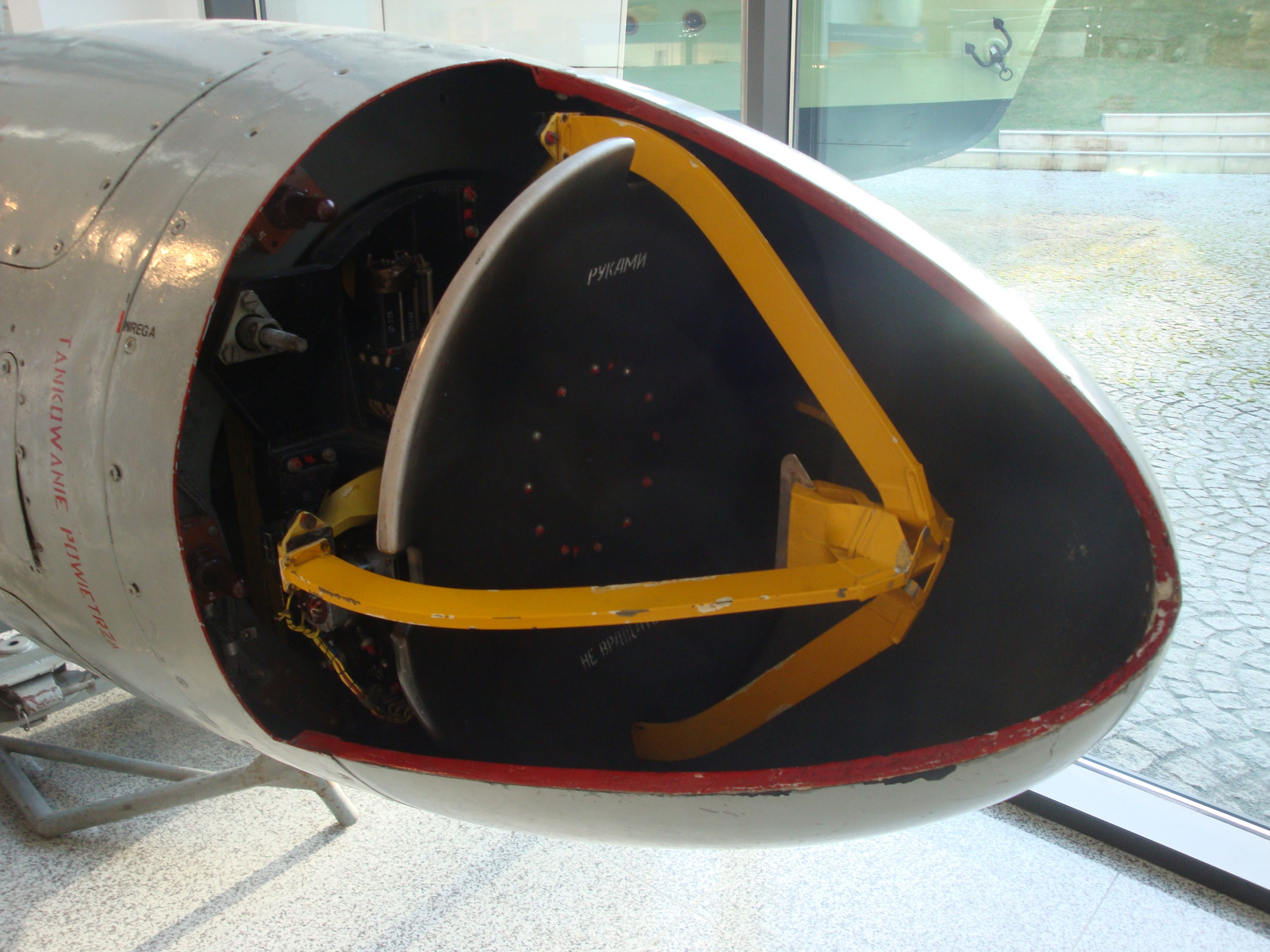 Guidance radar antenna in nose of P-15 termit rocket.